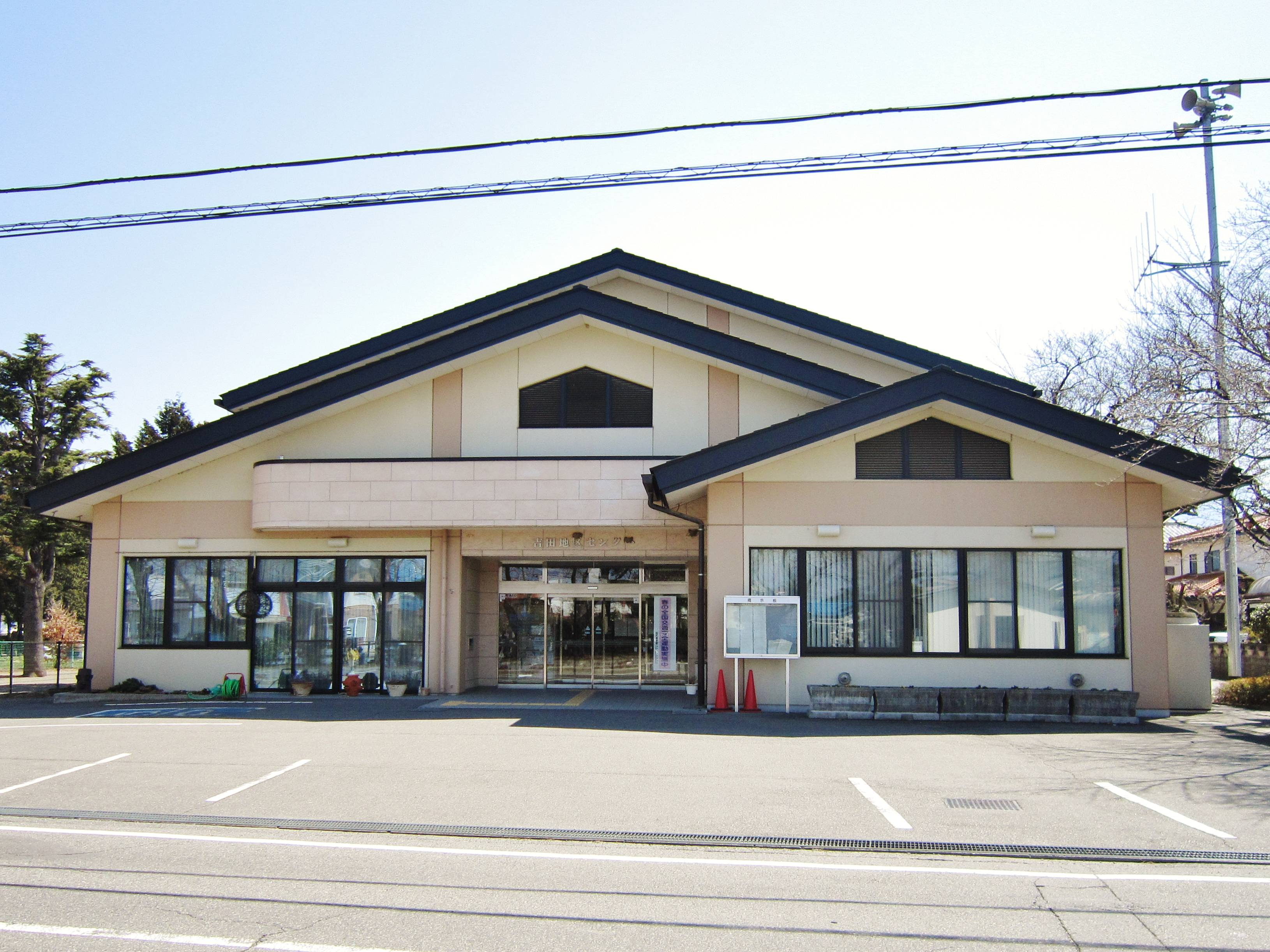 Shiojiri city Yoshida branch office (Yoshida area center / Yoshida kominkan / Yoshida library).